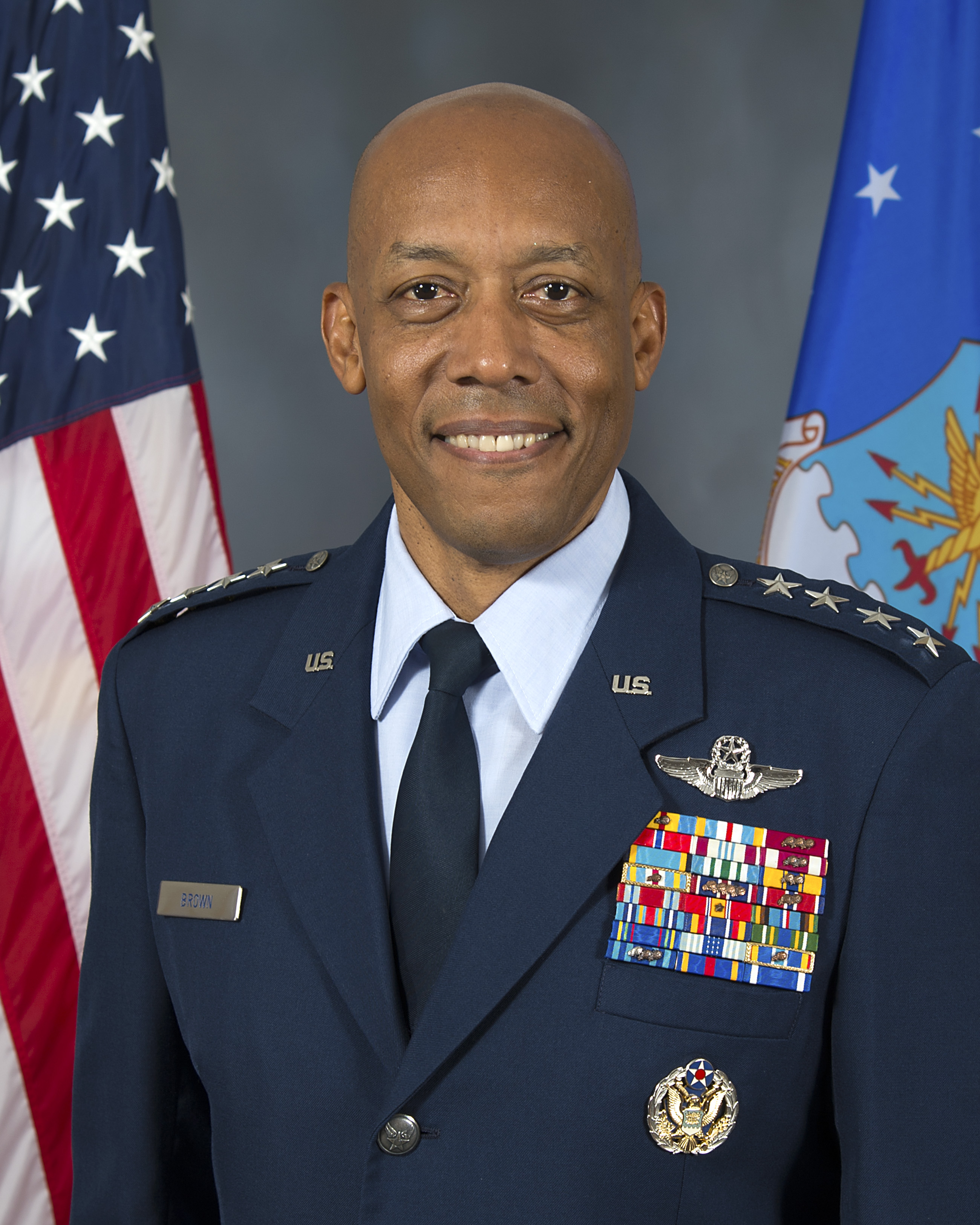 Gen. Charles Q. Brown, Jr.